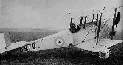 Original photograph taken by an employee of the British government. Image found on